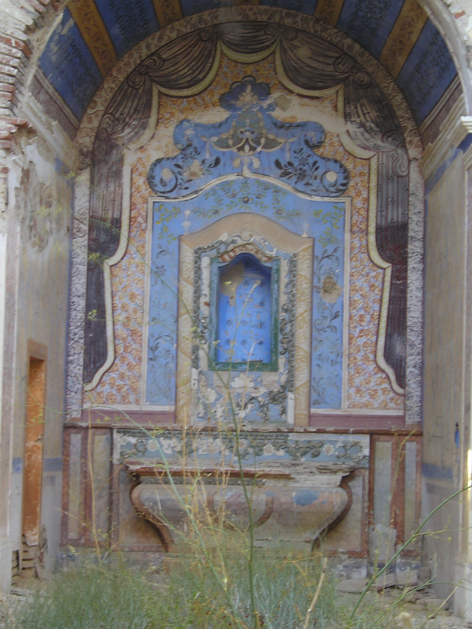 Hermitage of Nossa Senhora da Guadalupe, in the civil parish of Vila de Frades, municipality of Vidigueira, Portugal